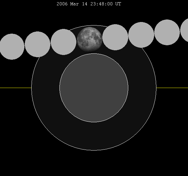 March 2006 lunar eclipse chart of moon's lunar eclipse path through the earth's penumbral shadow. thumb